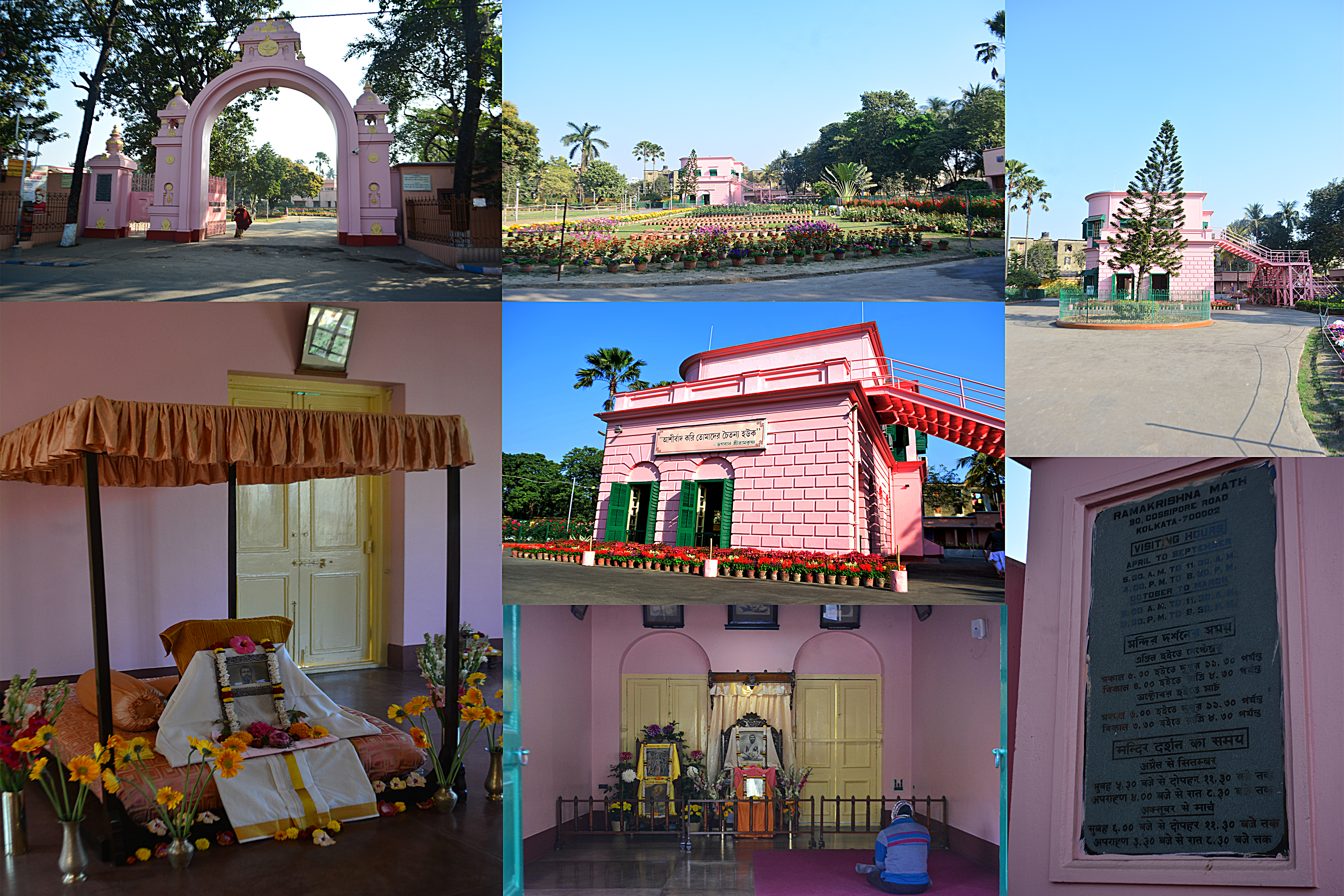 Cossipore udyan bati